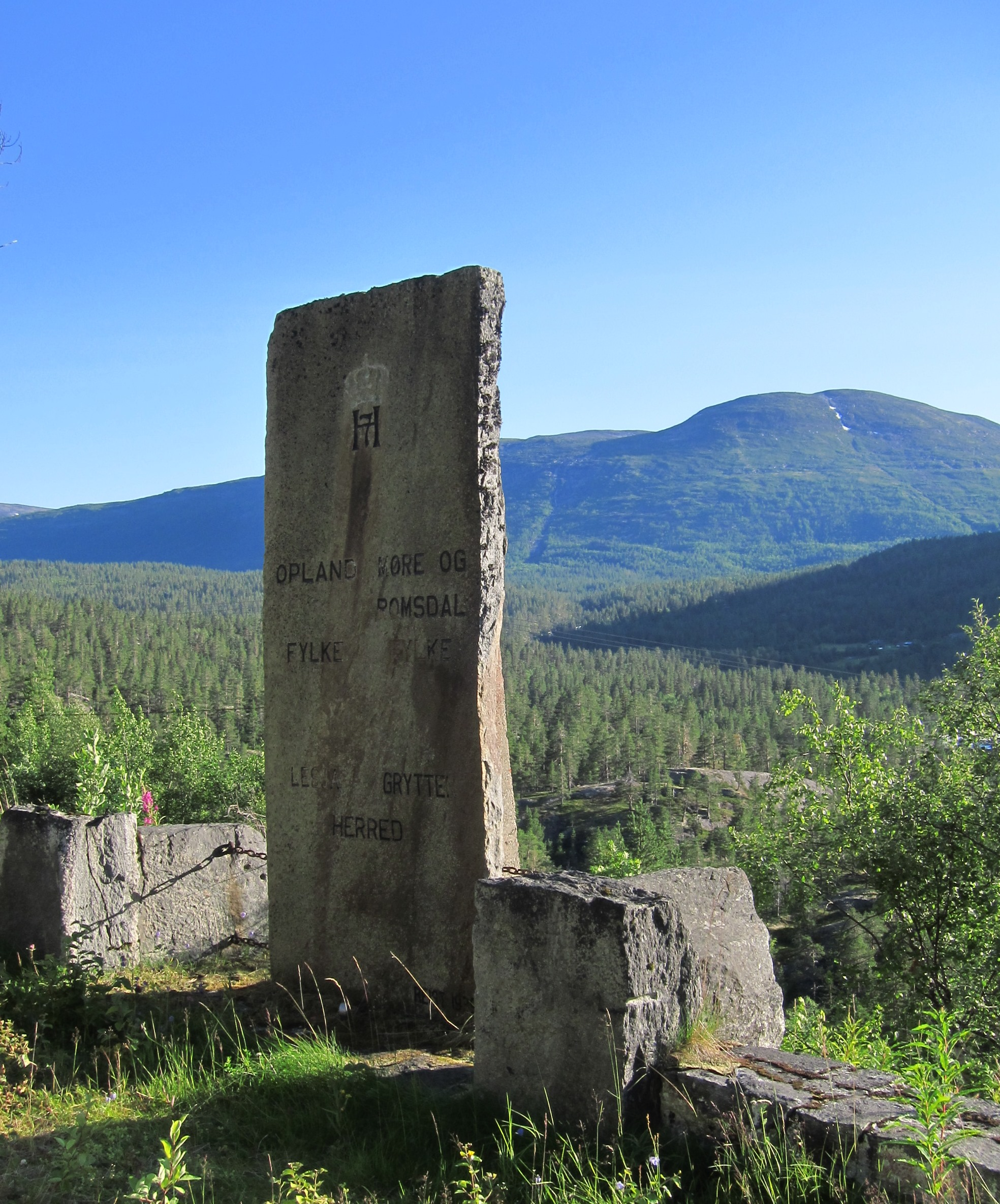 Old marking of county line Oppland-Møre og Romsdal at Brude/Stuguflåten (erected 1939), Håkon 7th insignia, abandoned section of road E136.